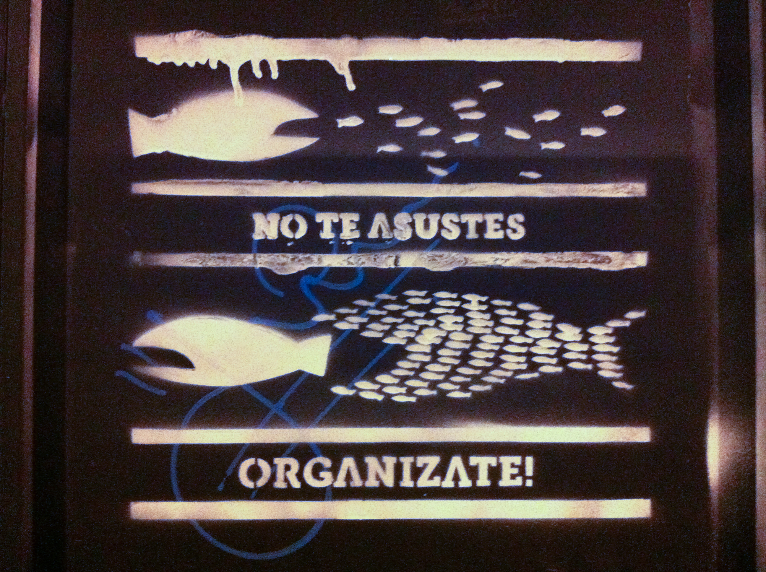 Buenos Aires Graffiti.